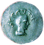 Chera Kuttuvan Kothai Coins provided by Tamil Virtual University to Wikimedia type of projects under CC 4.0